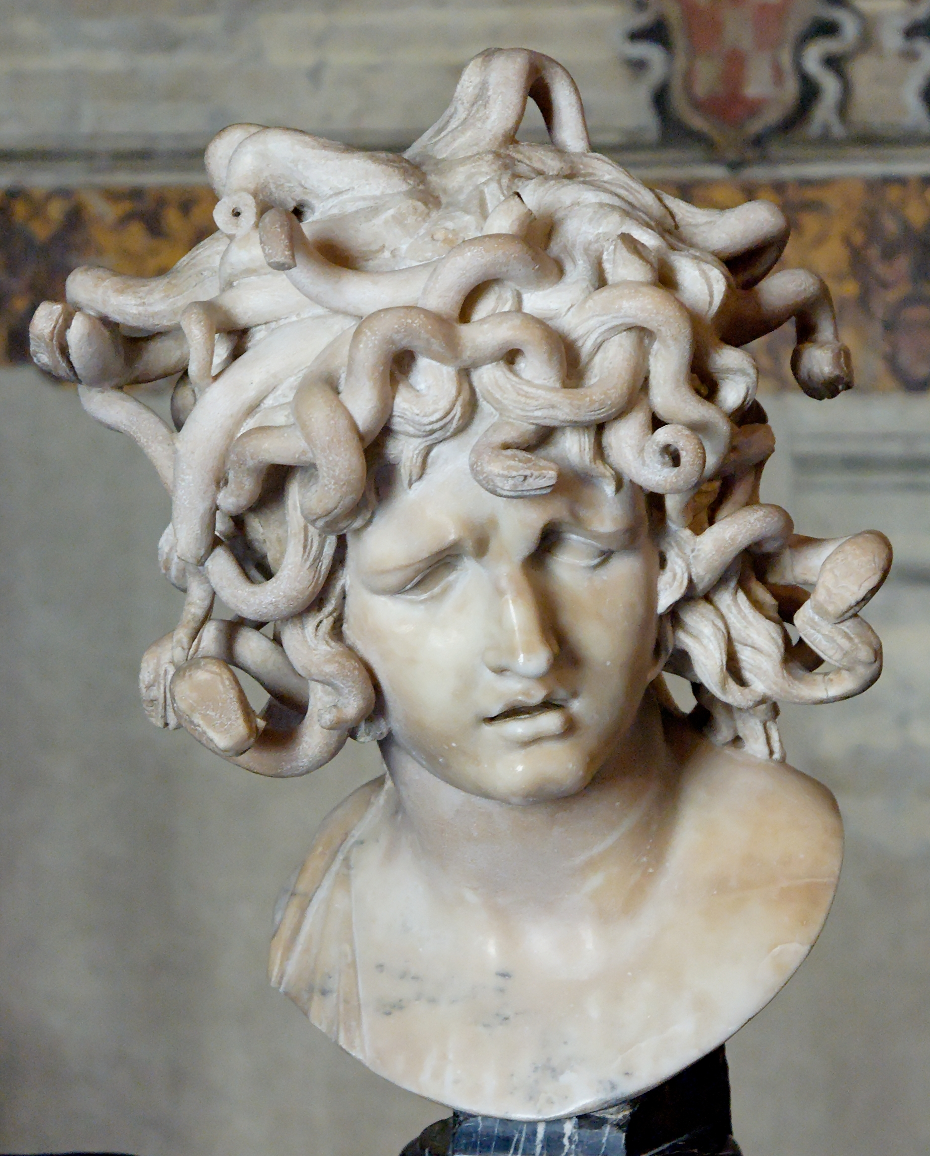 Head of Medusa. Marble, 1630.